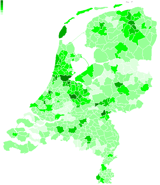 Distribution of GreenLeft voters over the Dutch municipalities in the 2006 elections.